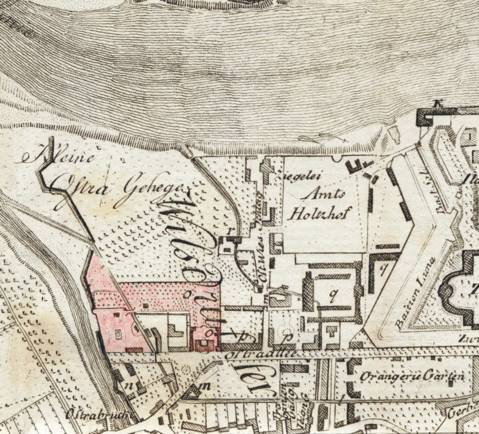 city map of Dresden (a part of plan with Kleines Ostragehege), J. Georg Lehmann, delineated 1801, improved 1804, printed 1809signature "o" according to map legend (Situation of the Prinz-Max-Palais by the uploader subsequently marked in red)